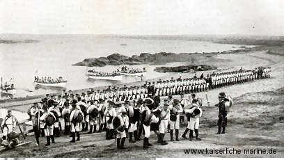 Landing of German Imperial Navy Seebatallione (marines) at the storming of the Taku Forts during the Boxer Rebellion.